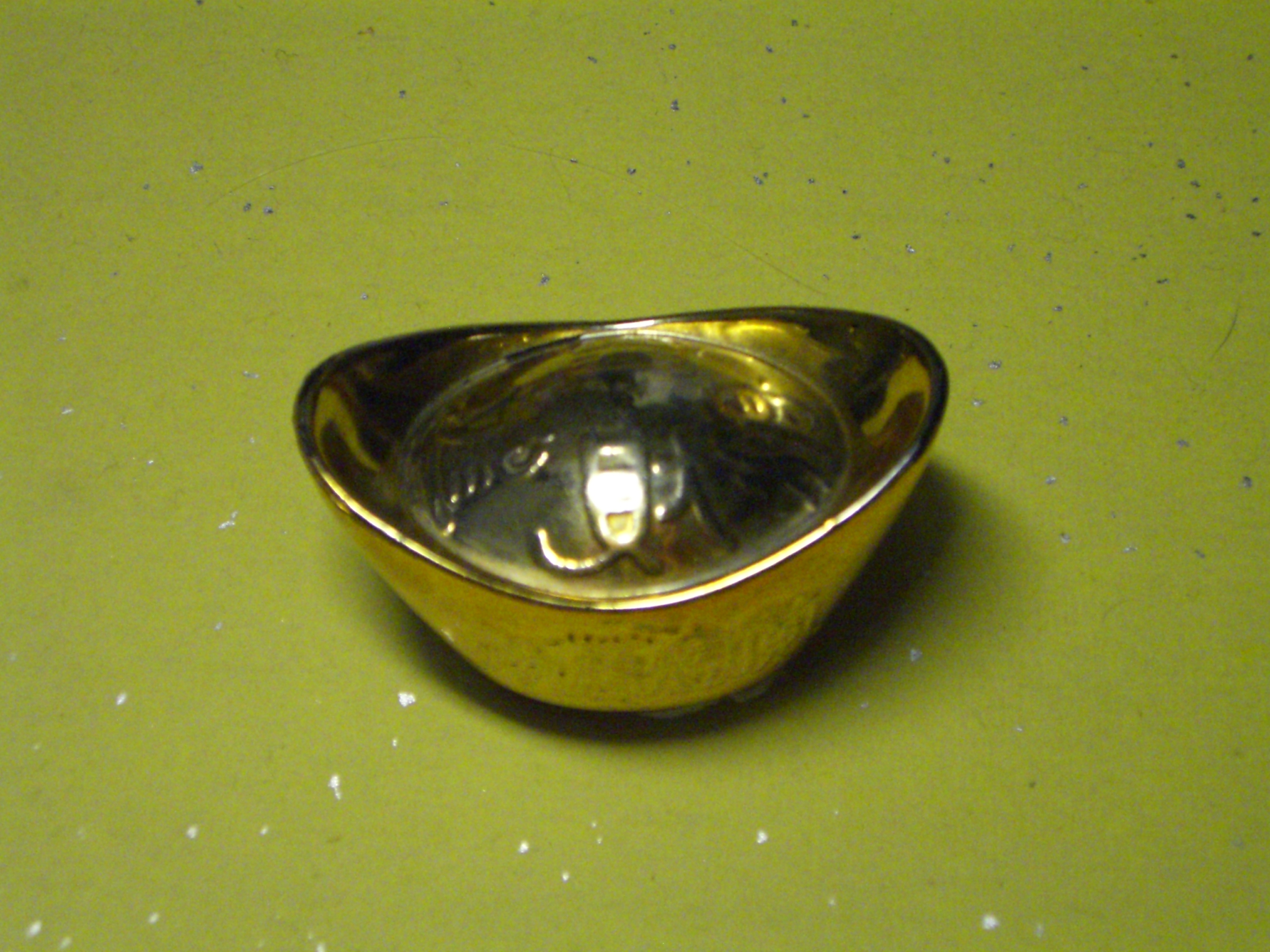 Mock gold yuanbao, an old type of chinese money ; used as a decorative item for Chinese New Year.